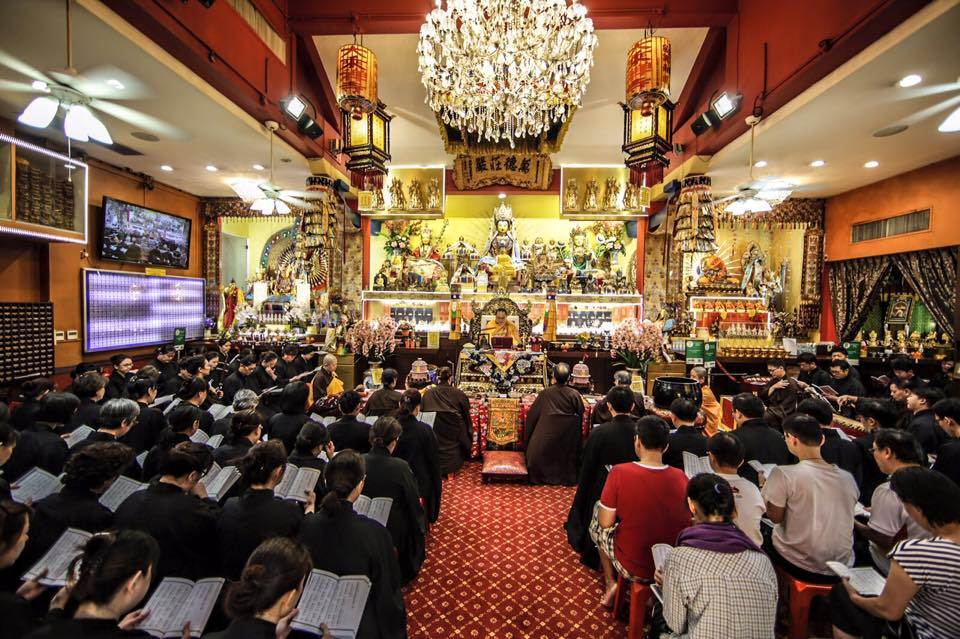 Prayers during Ullambana Festival